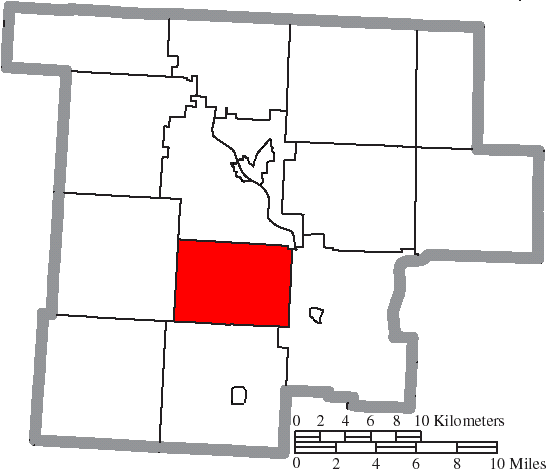 Map of the municipal and township boundaries of Morgan County, Ohio, United States, as of the 2000 census, with the location of Penn Township highlighted. Township borders are shown only in unincorporated areas in order to differentiate incorporated and unincorporated areas more clearly.